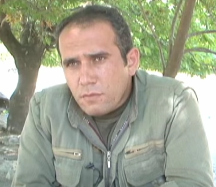 Rezan Javid, a PJAK leader, variously described as a coordinator, co-chair, and member of the coordination committee.